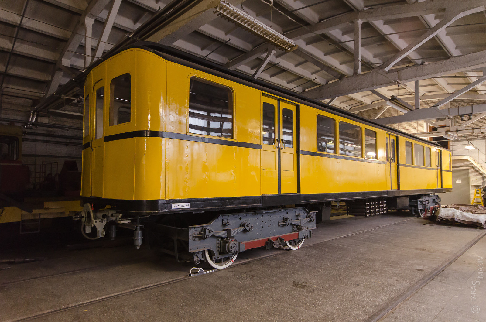 Subway car V4-156 (ex. BVG C1-104) in depot Avtovo of Saint Petersburg Metro.